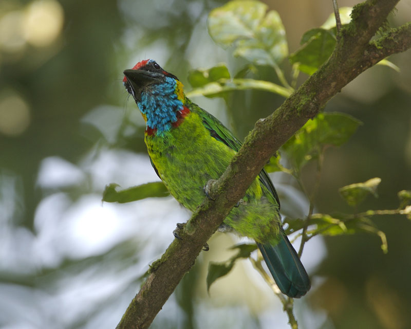 Red-crowned Barbet, Megalaima rafflesii Panti Forest, Johor, Malaysia 3rd. September 2006